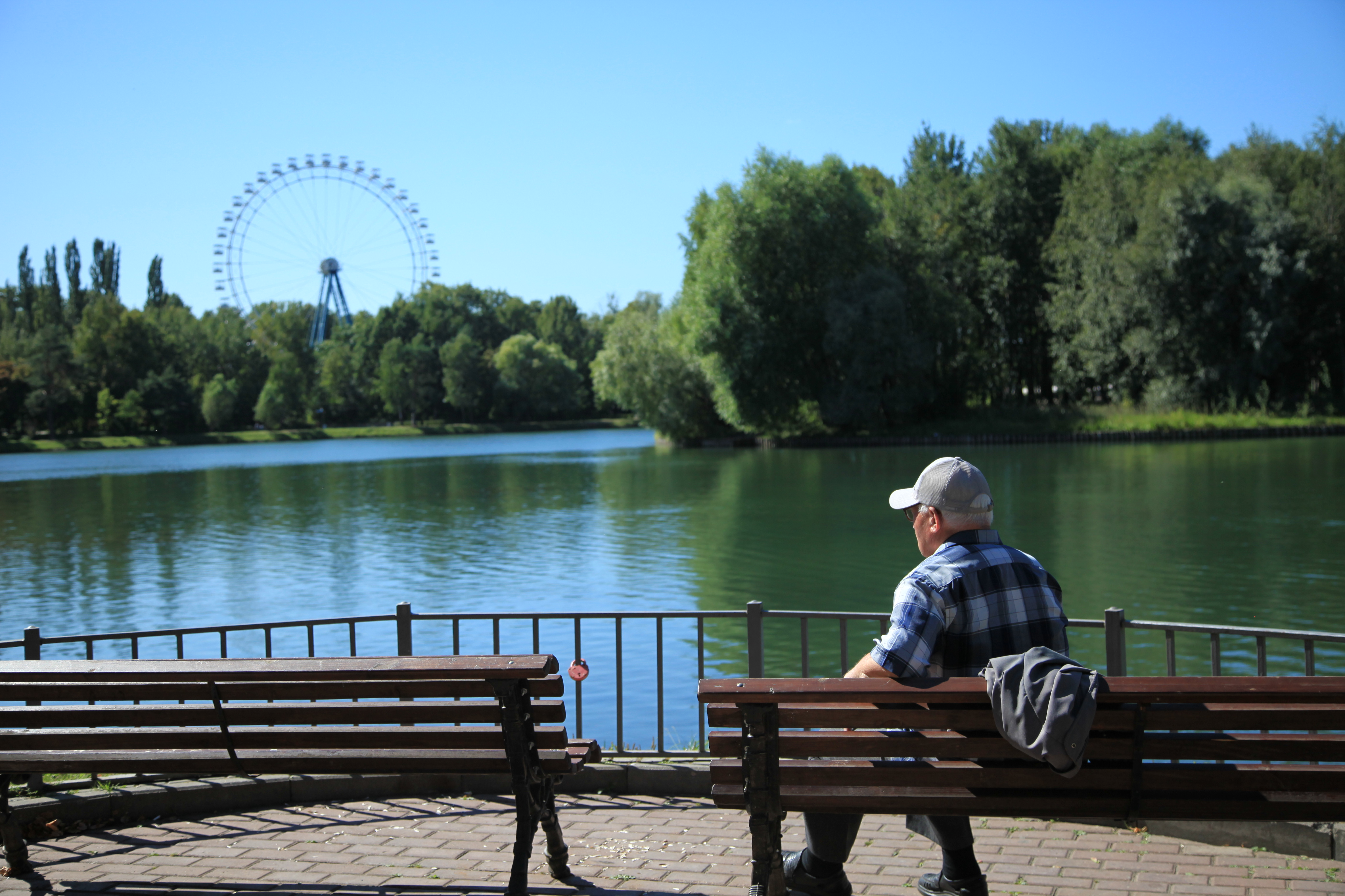 Visitor of Izmailovsky park, Moscow